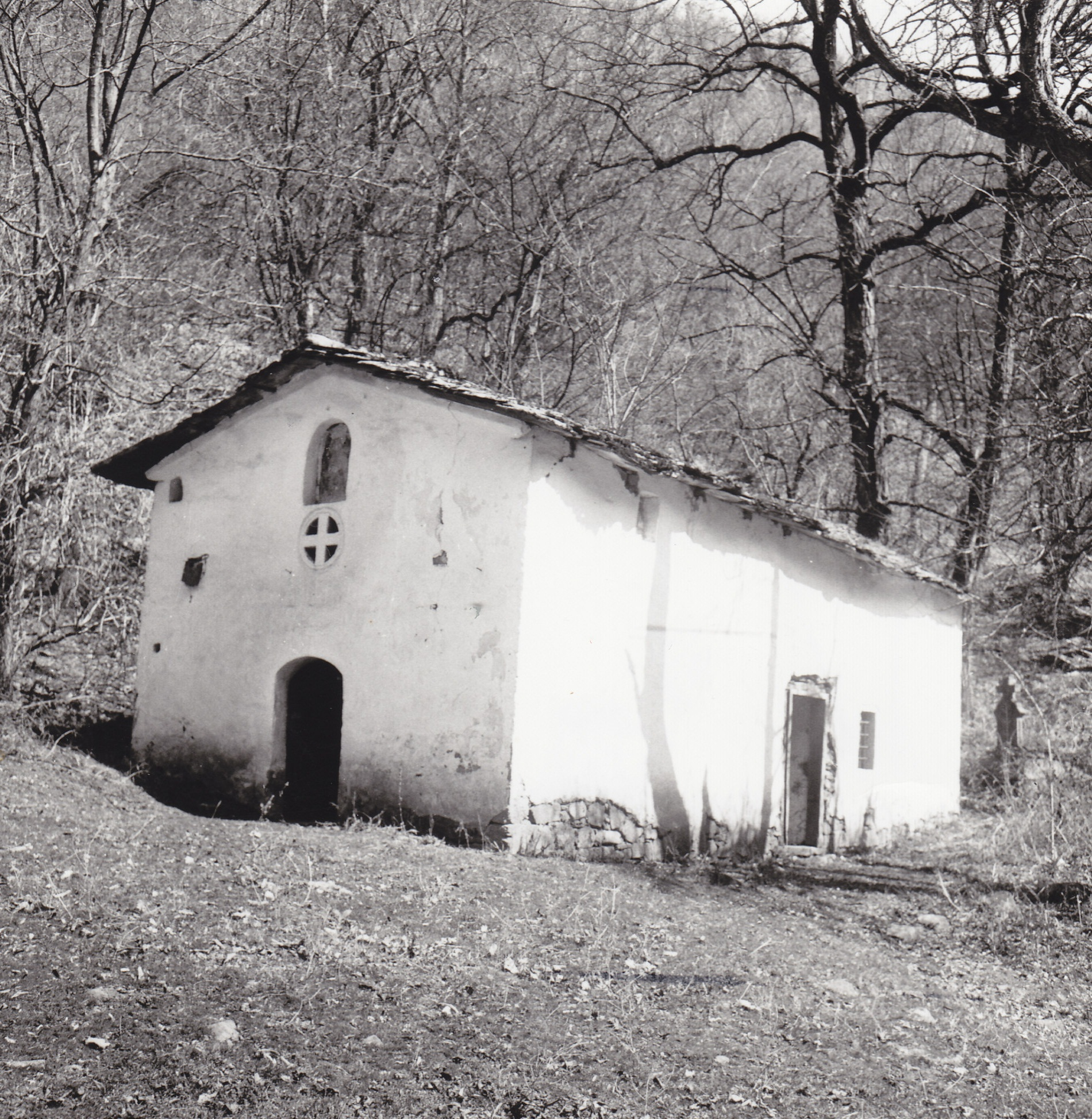 Monastery Kacapun near Vladičin Han